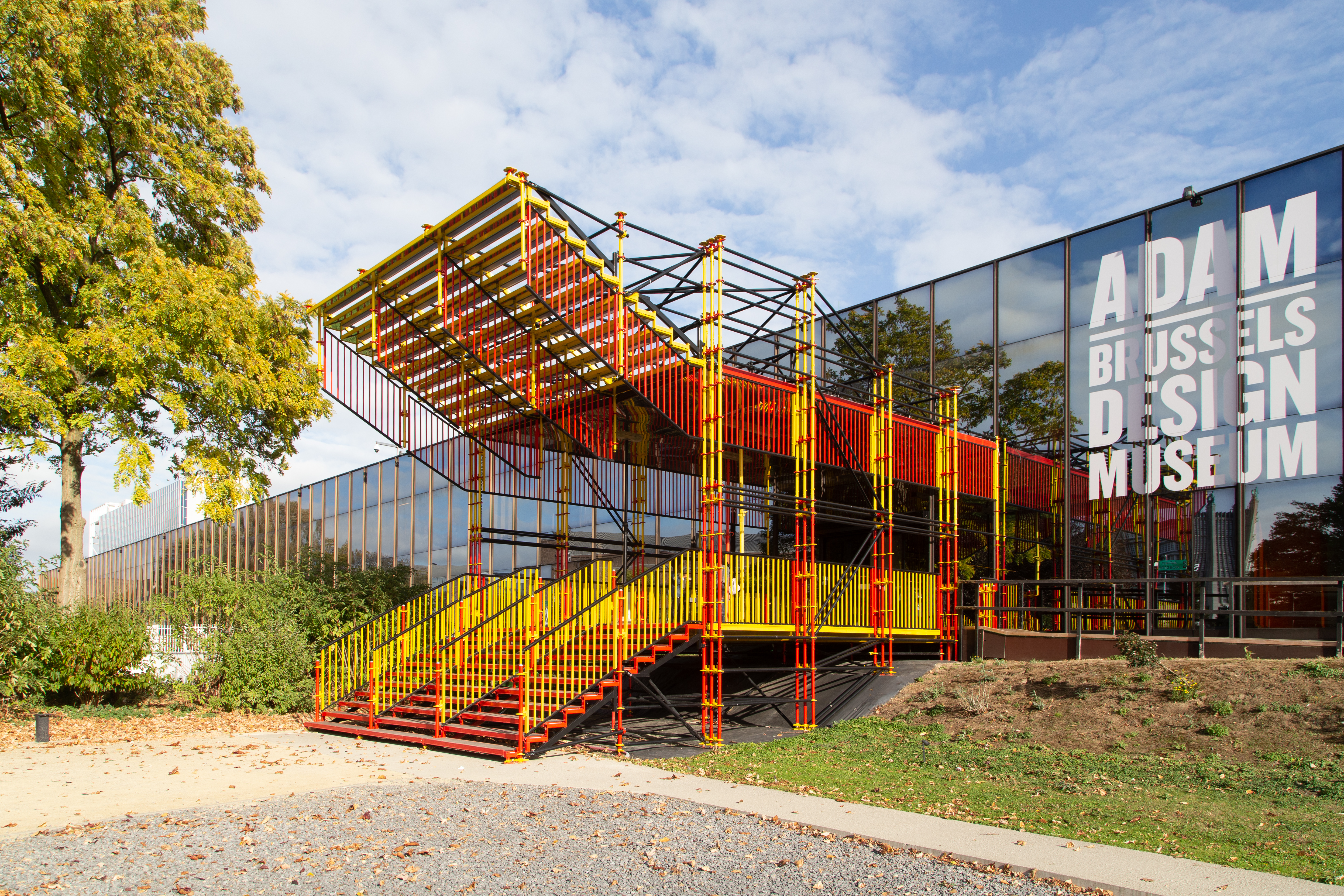 Entrance ADAM Brussels Design Museum